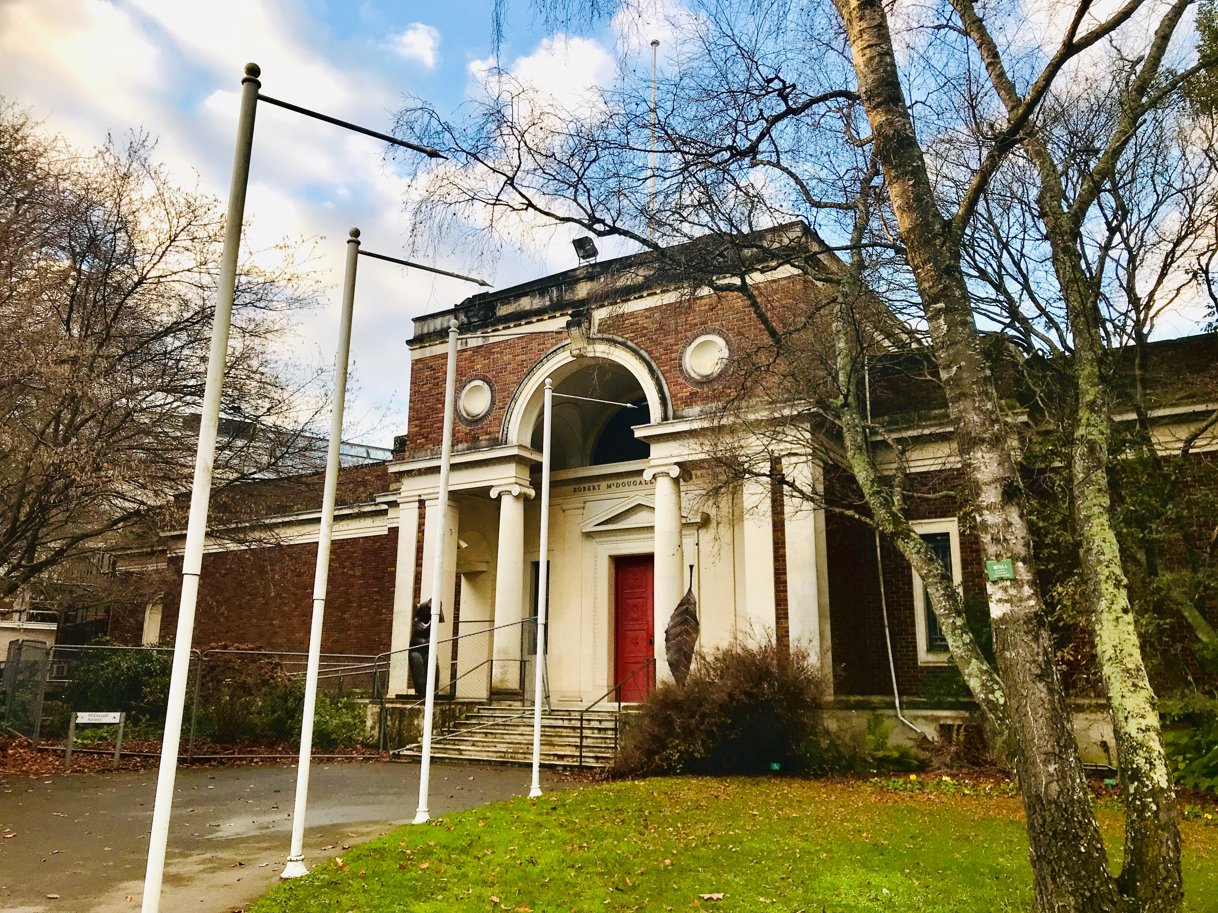 The entrance of the Robert McDougall Art Gallery.